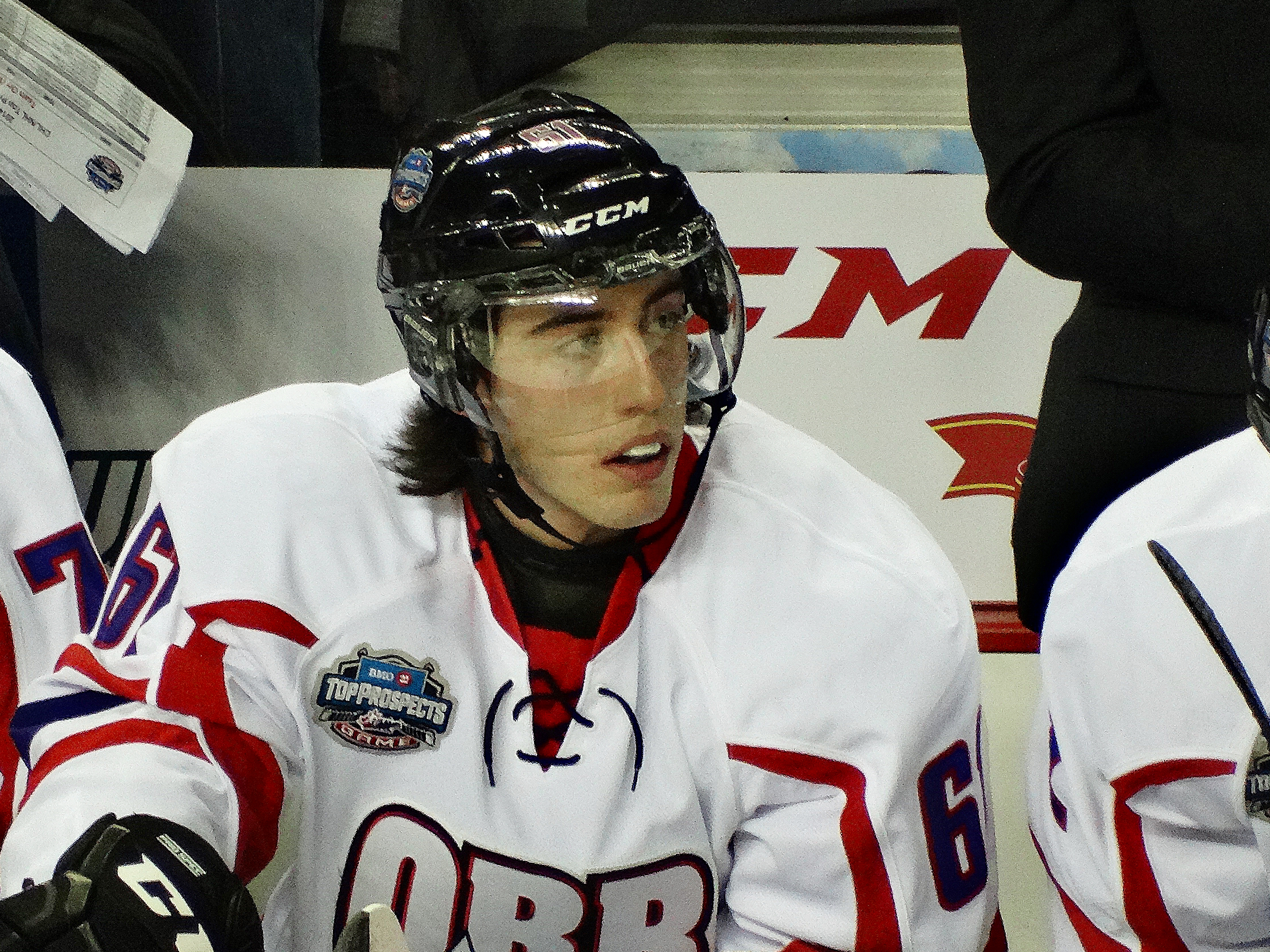 Clark Bishop, Canadian ice hockey right centre at the CHL / NHL Top Prospects game